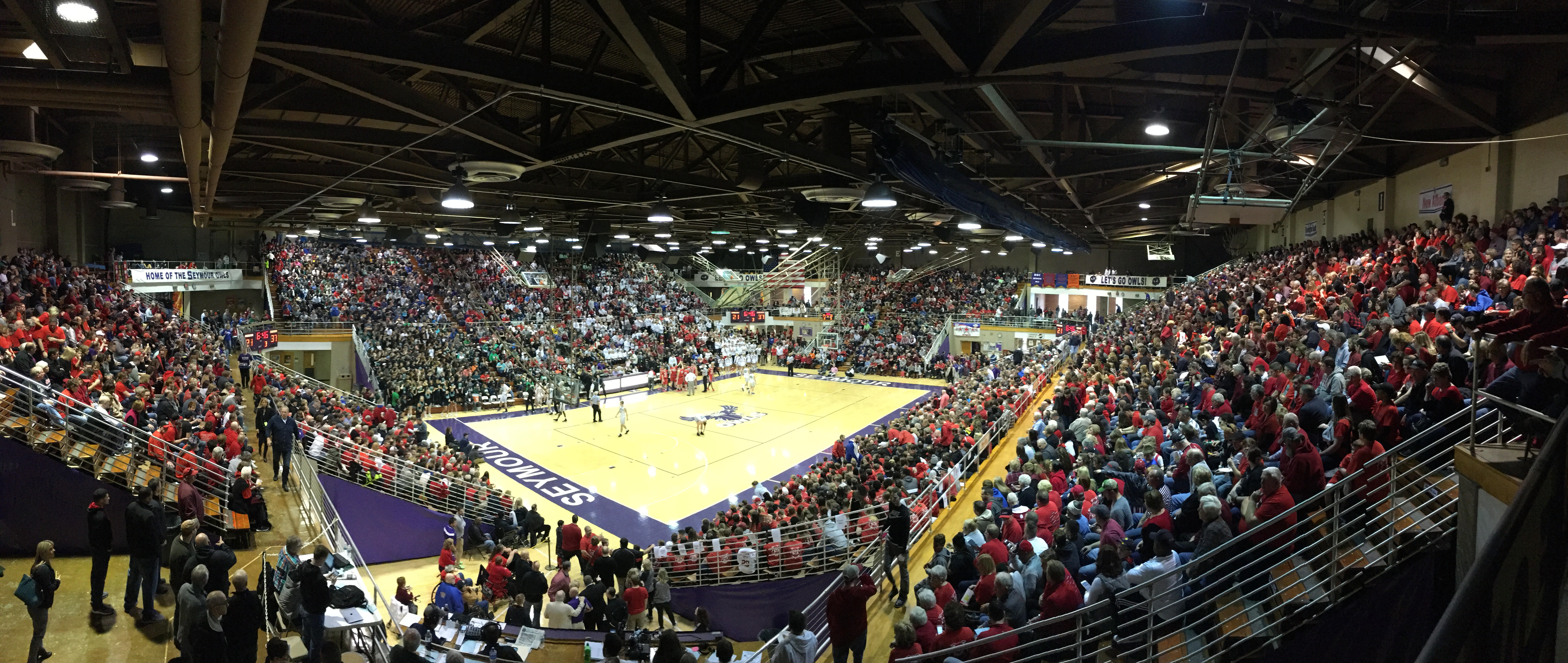 Gym at Seymour High School (Ind.)